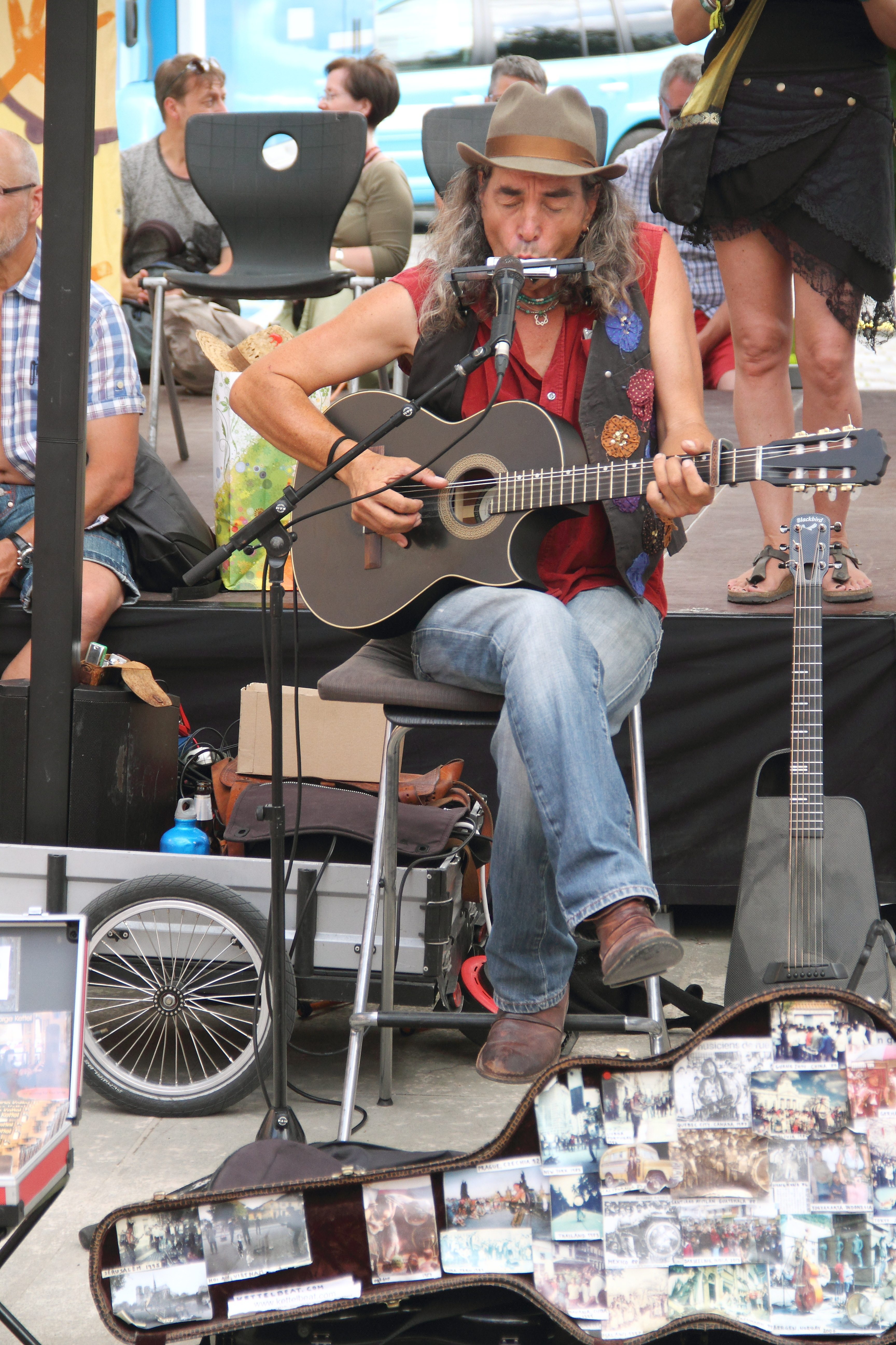 German-Danish street musician Gee Gee Kettel at Rudolstadt-Festival 2018.